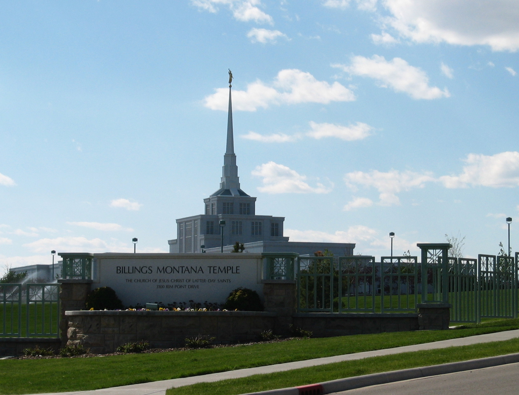 Billings Montana Temple with name at front.